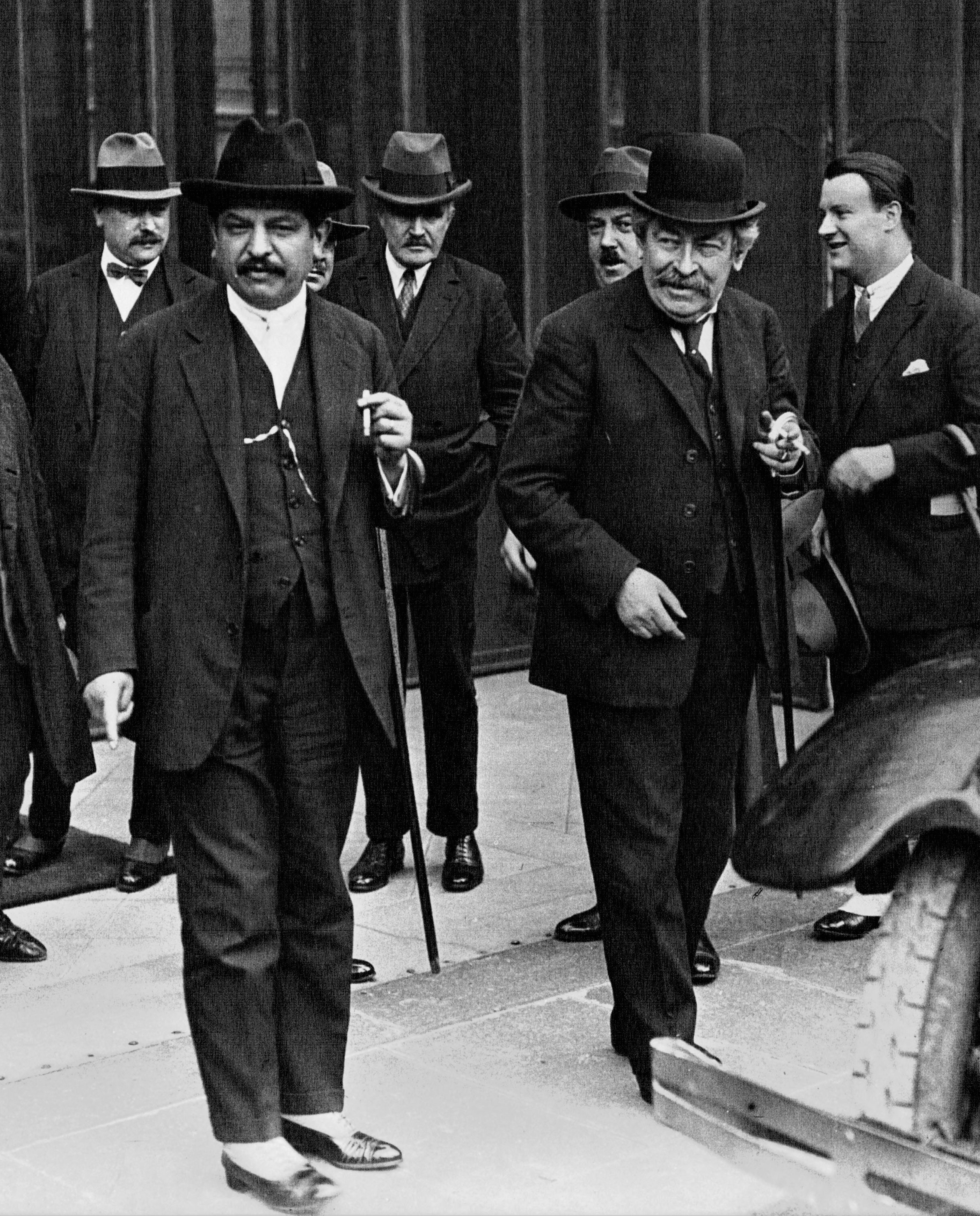 Council of Ministers at the Élysée Palace in 1926. From left to right: Pierre Laval, Aristide Briand.